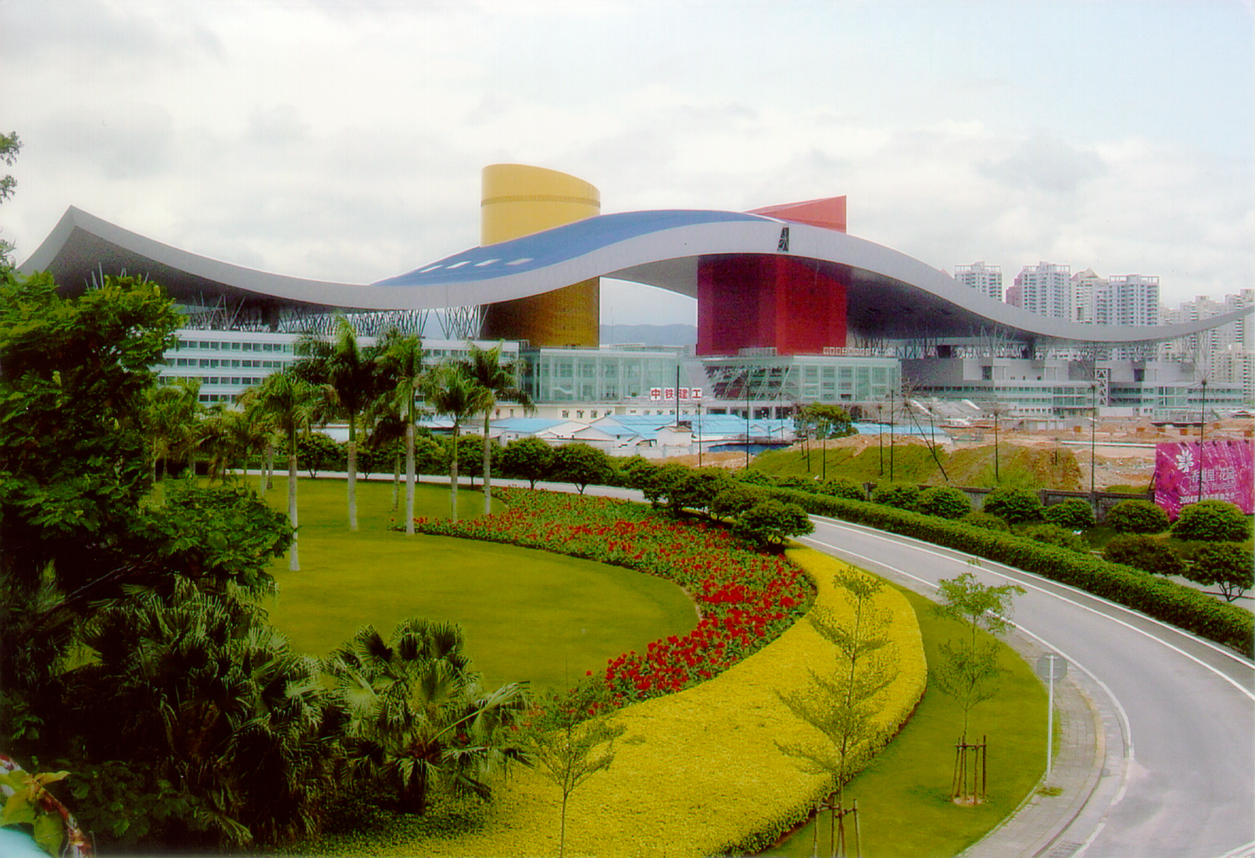 One of the roadside gardens leading to the Shenzhen Civic Center.